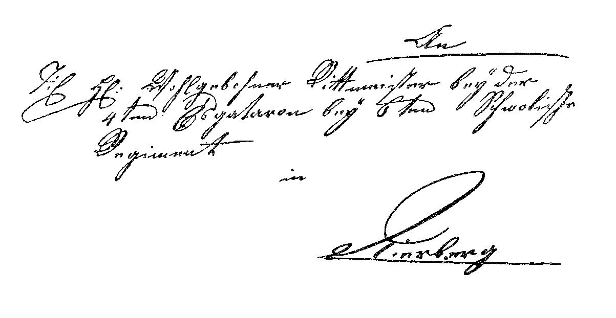 To his honor the Captain of the 4th Esgataron of the Shwolishay regiment. Nuremberg.